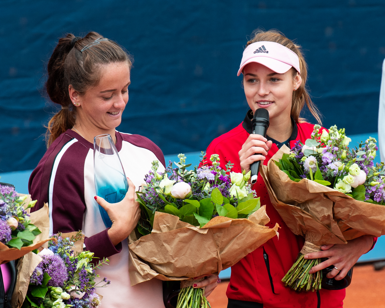 Viktória Kužmová (left) and Anna Kalinskaya, winners of the 2019 Prague Open